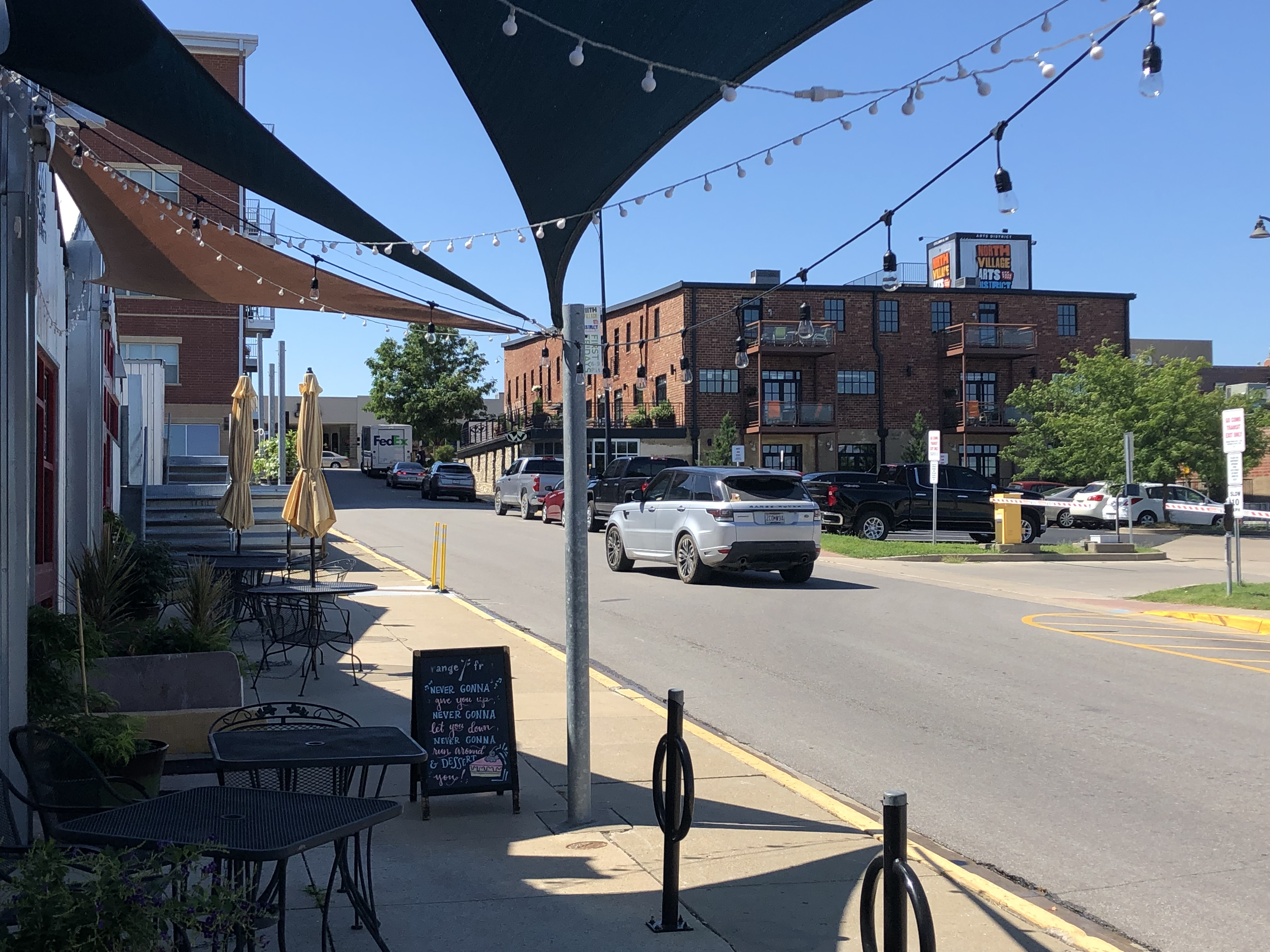 The Berry Building in the North Village Arts District from the patio of Range Free.